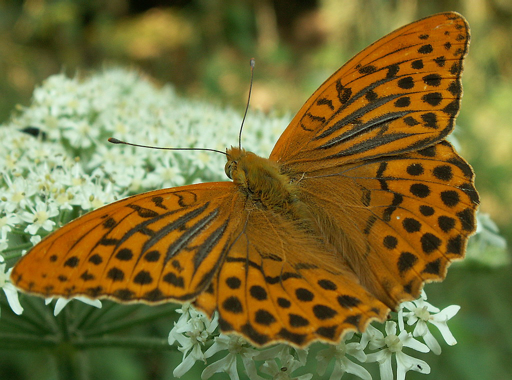 Silver-washed Fritillary (Argynnis paphia) now ... in the right position :)